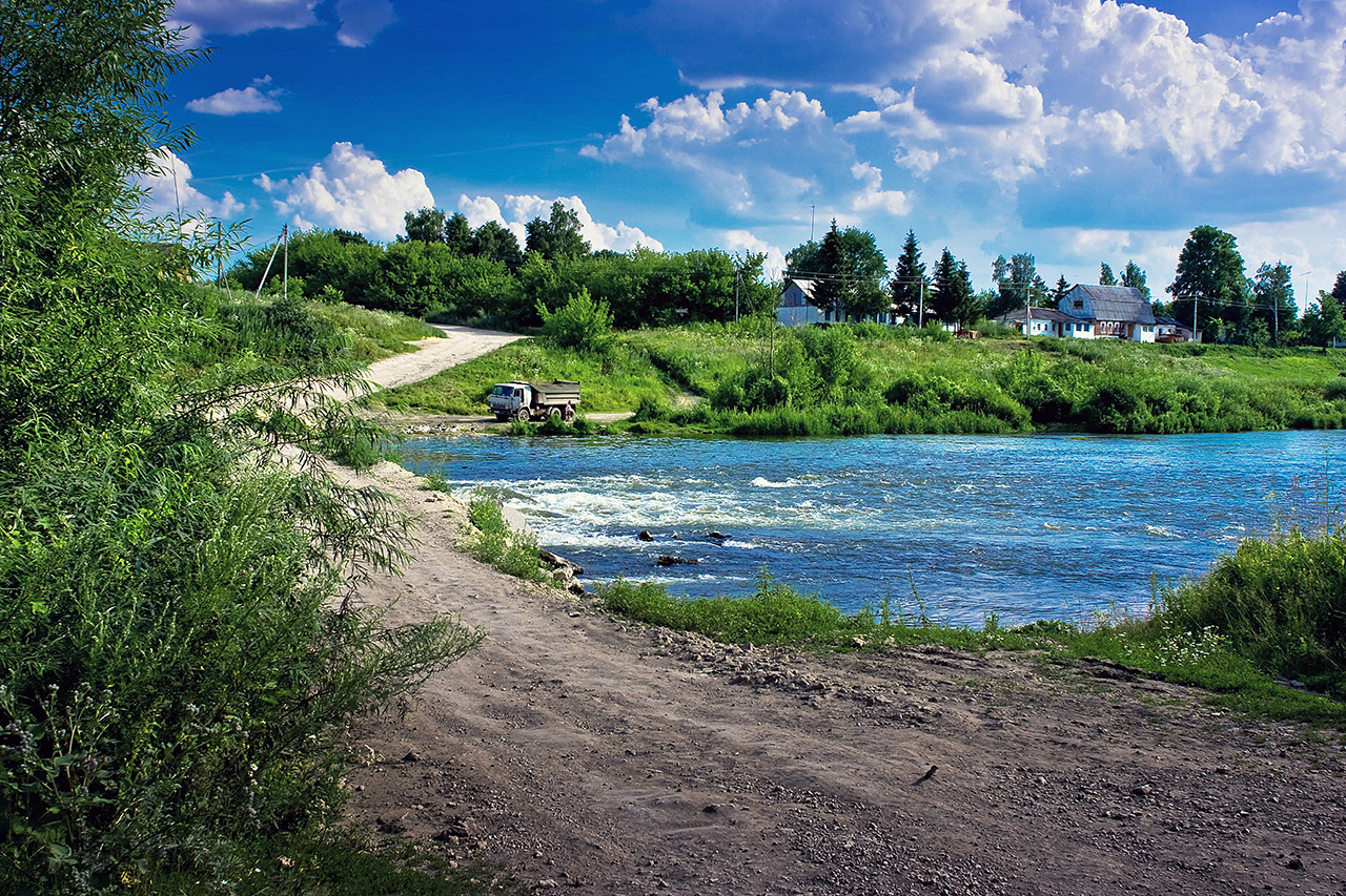 ramp to the bridge crossing the Don, seen from Kalinova, looking to Bolshoe Popovo